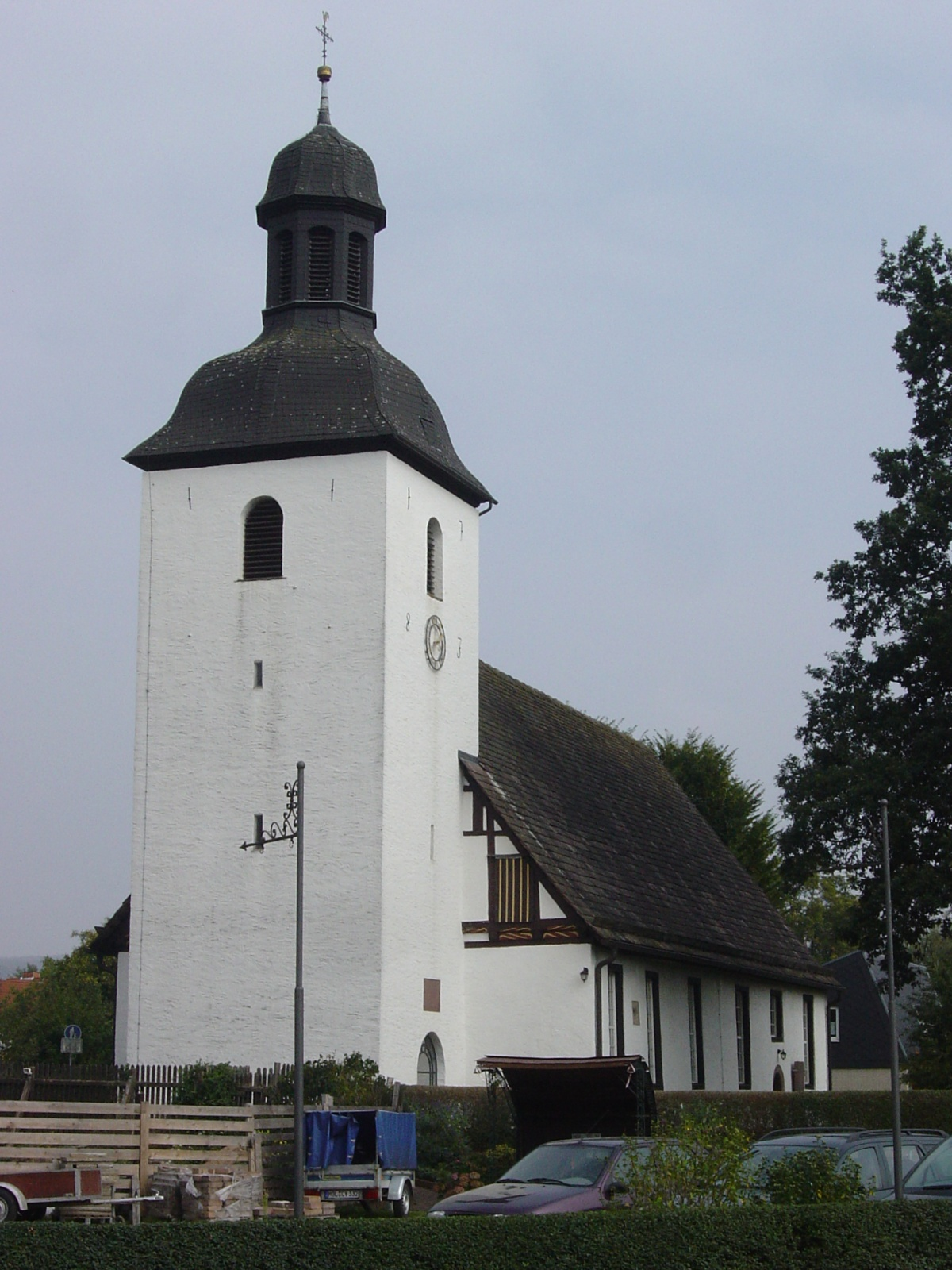 Lutheran St. Markus Church Lauenförde (Germany)